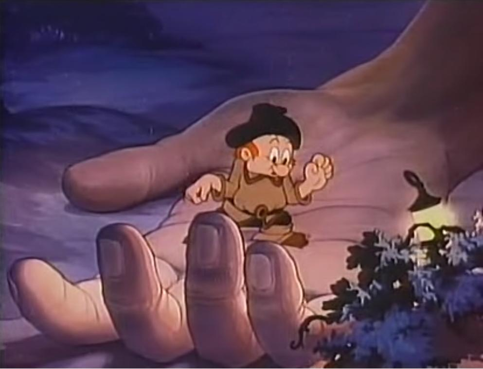 Gabby the nightwatch from "Gulliver's Travels" (1939)